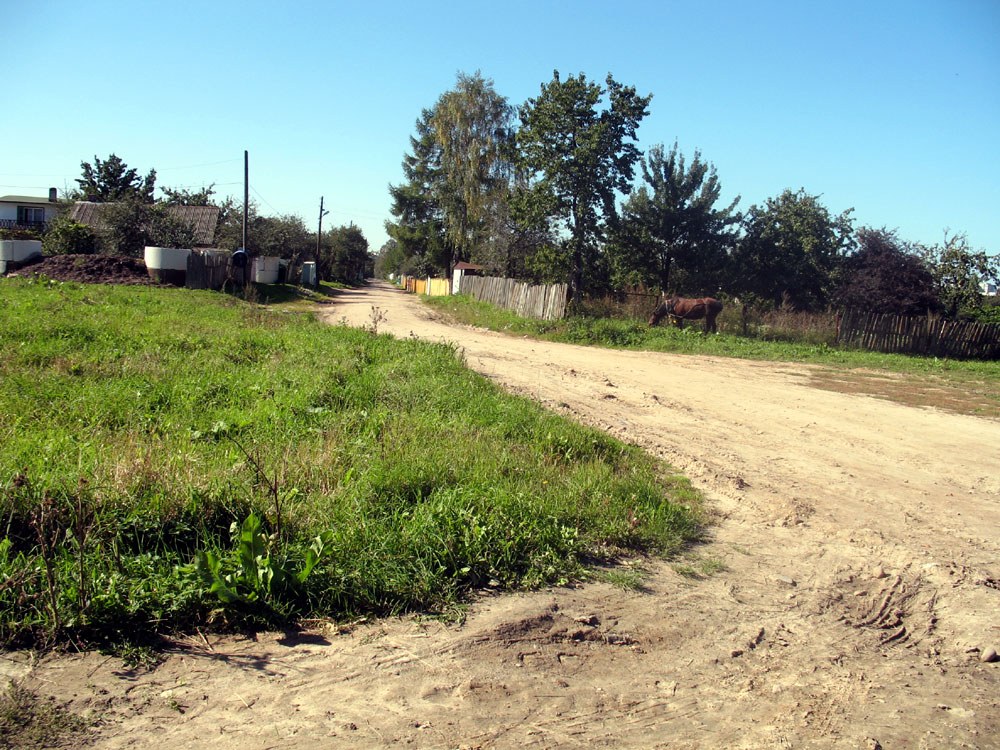 Former Rylaŭščyna village in Minsk, the end of Družba street